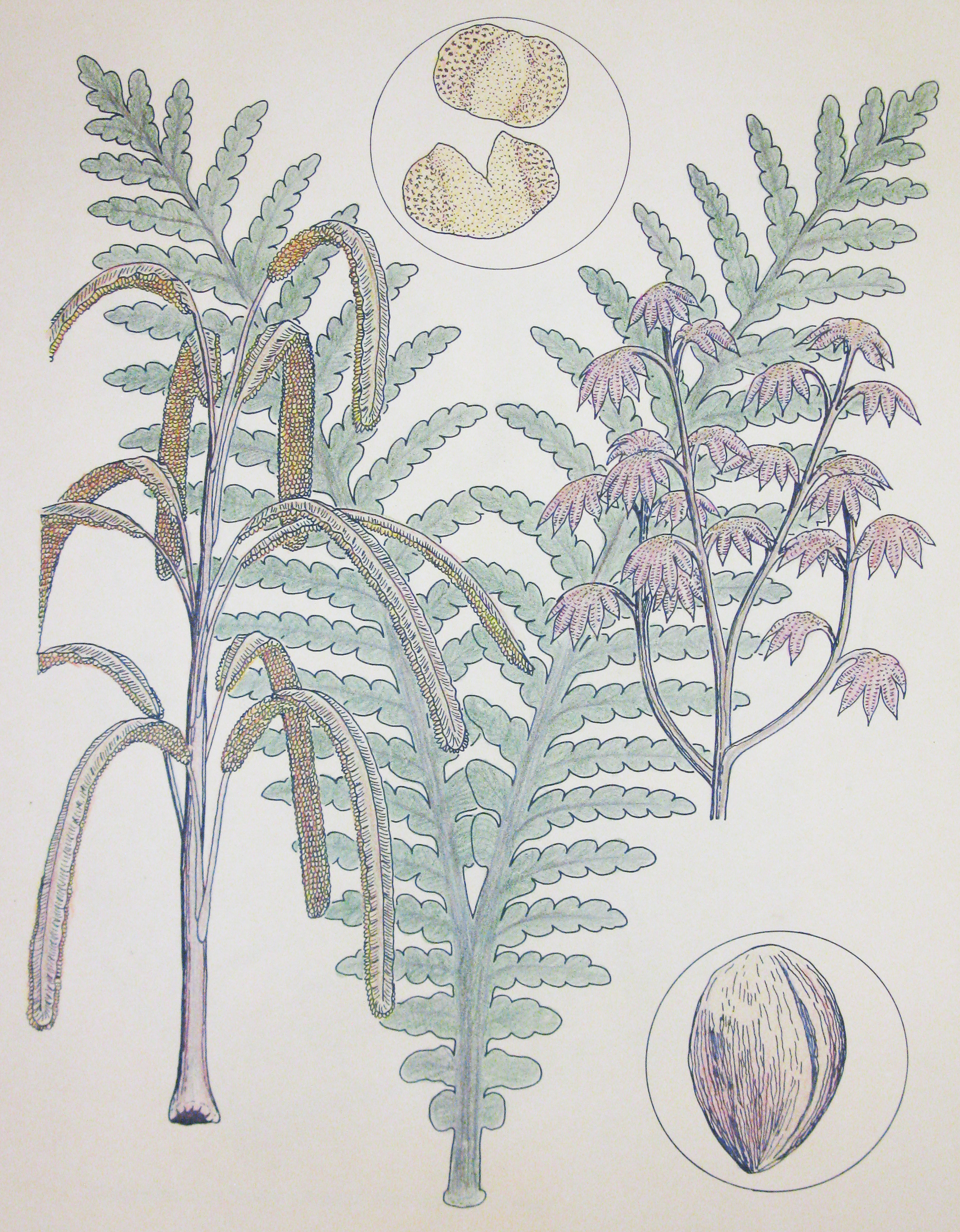 A reconstruction of the Umkomasia feistmantelii plant from the Early Triassic Sydney Basin, Australia